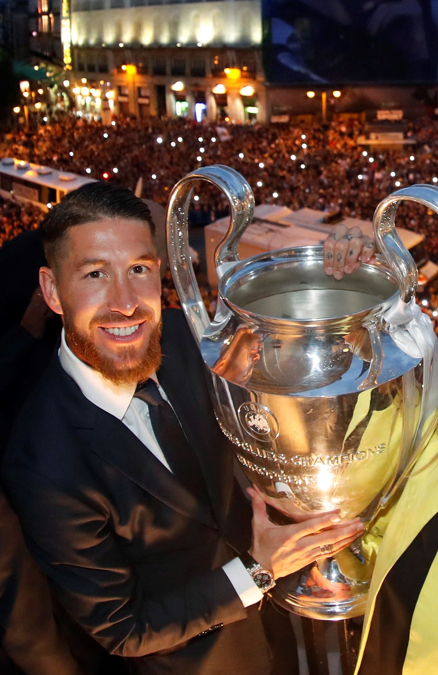 Real Madrid captain Sergio Ramos holding the European Champion Clubs' Cup on the balcony of the Real Casa de Correos (Royal Post Office, seat of the President of the Community of Madrid) after winning the 2016 UEFA Champions League Final.